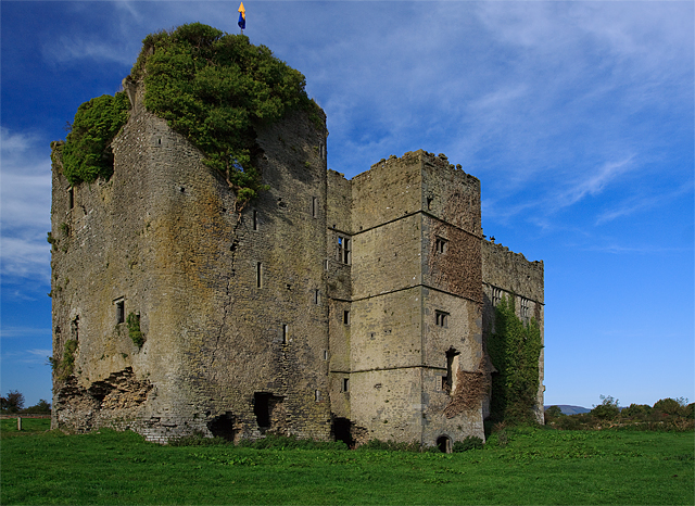 Castles of Munster: Loughmoe, Tipperary This very impressive round cornered C15 tower house is on farmland at Loughmoe, a small village 5 km south of Templemore. The main private room contains a fine C17 fireplace with the initials of one of the Purcells. It was the Purcells who added a four storey mansion in the early C17 to the tower's north side with large upper mullion-and-transom windows, and string courses marking the floor levels. The mansion terminates in a large wing at the NW corner containing five storeys of private rooms. Colonel Nicholas Purcell, the last of his line, was a Jacobite signatory of the Treaty of Limerick in 1691, who fought at the battles of the Boyne and Aughrim, and also at Limerick with Sarsfield, and died here in 1722.